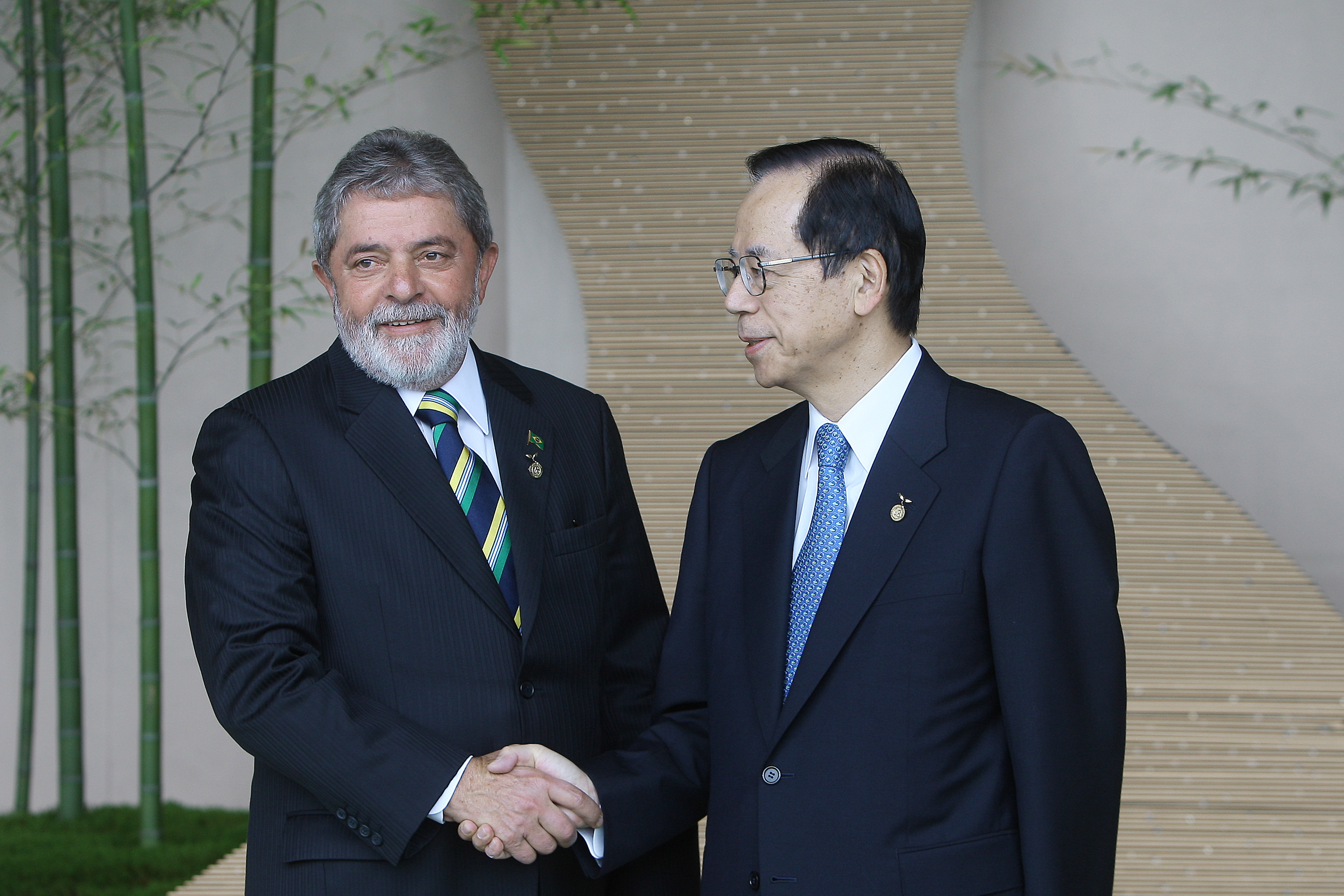 President Luiz Inácio Lula da Silva and Prime Minister Yasuo Fukuda shake hands at the Windsor Hotel Tōya Resort and Spa in Tōyako Town, Abuta District, Hokkaidō on July 9, 2008.